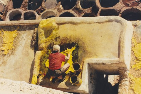 Tanning in Fes Morocco there worked with different colors